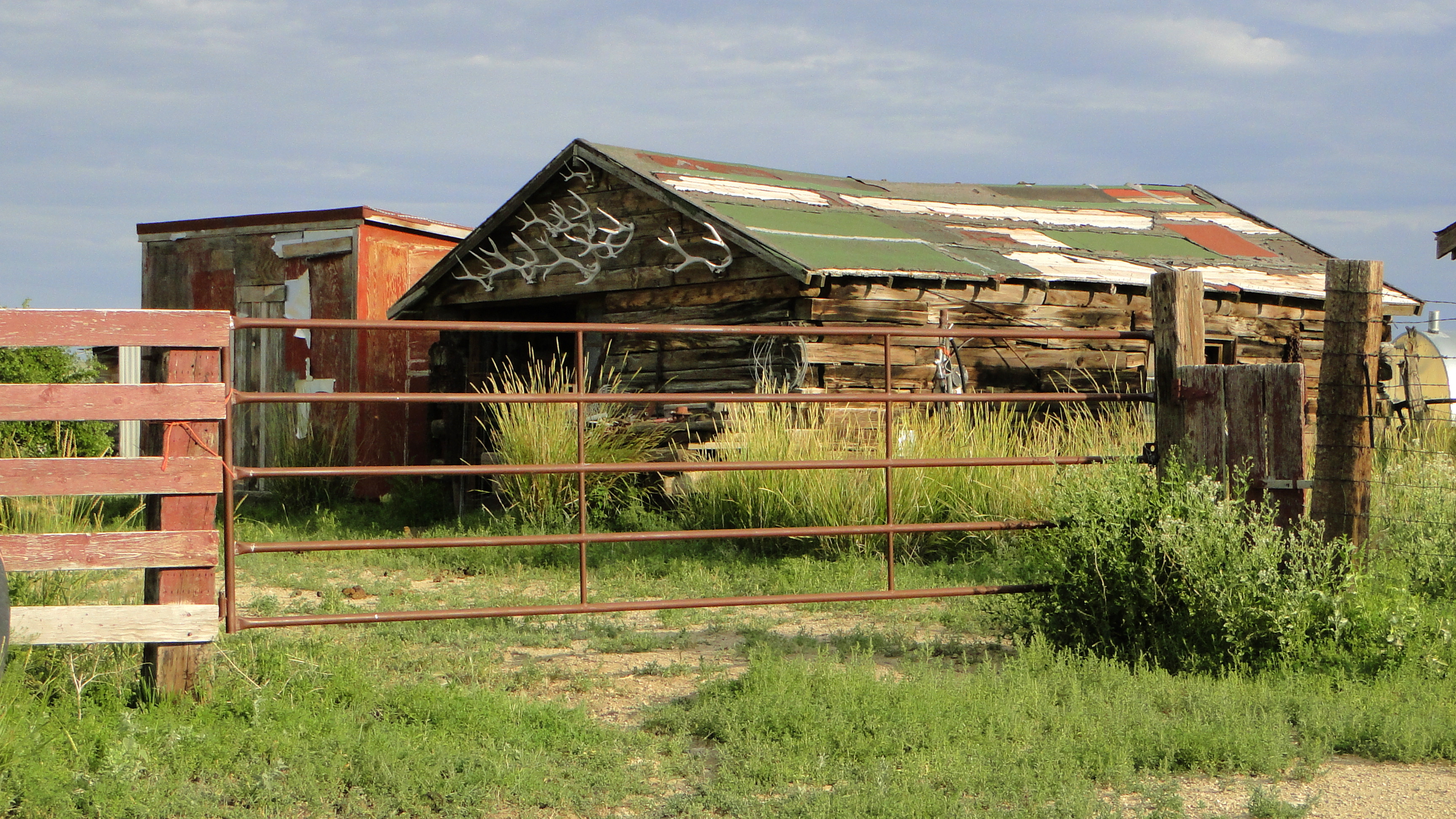 Land ownership in the Red Desert is a checkerboard of public and private land. Private ownership includes remote cattle and horse ranches.